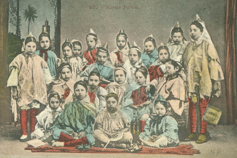 Description: Postcard “Ecole Juive” Origin: North Africa Date: early 20th century Medium: photographic postcard, colored Persistent URL: Repository: Accession number: 2005.016 Rights Information: No known copyright restrictions; may be subject to third party rights. For more copyright information, click See more information about this image and others at